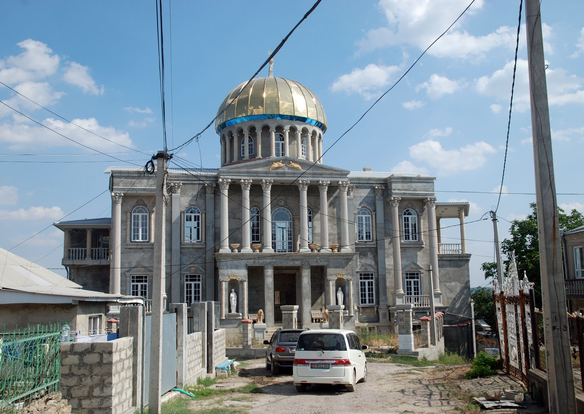 Soroca, gypsy palace